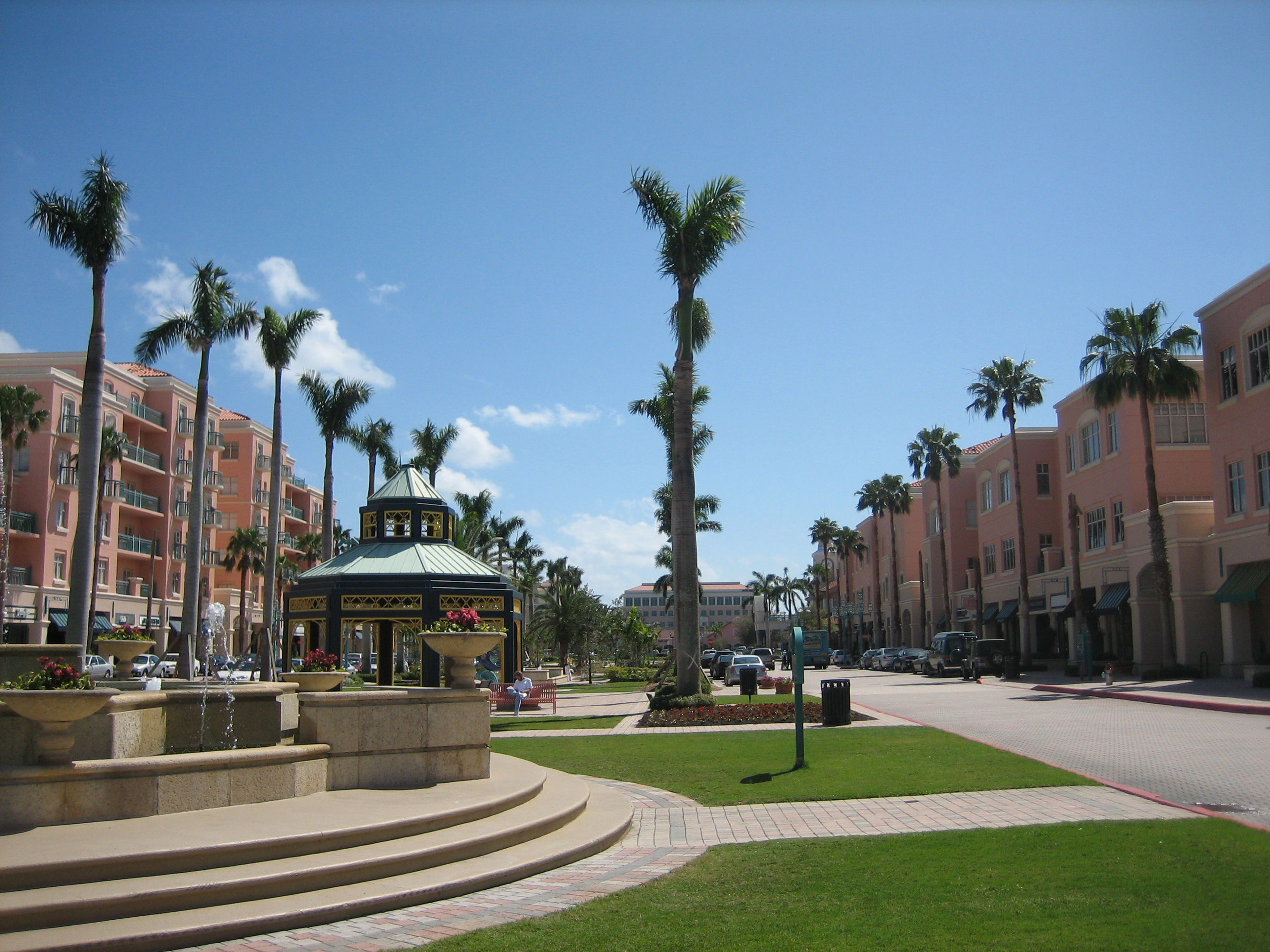 View of part of "Mizner Park", an upscale combination mall and residential complex with museum and other amenities, Boca Raton, Florida. Photo by Infrogmation, March 2006